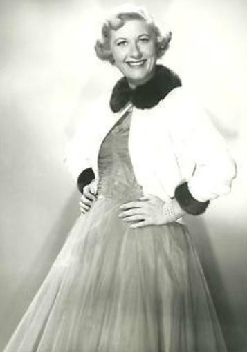 Publicity photo of Joan Davis from the television show, I Married Joan.